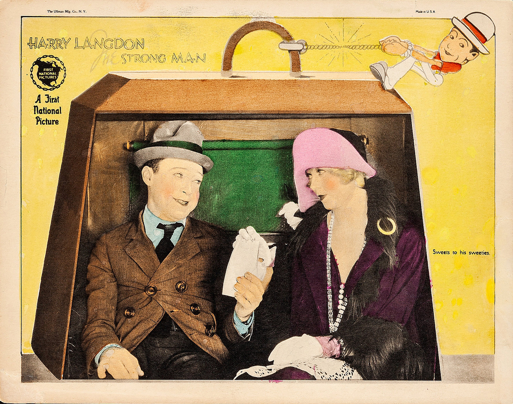 Lobby card for the 1926 film The Strong Man.